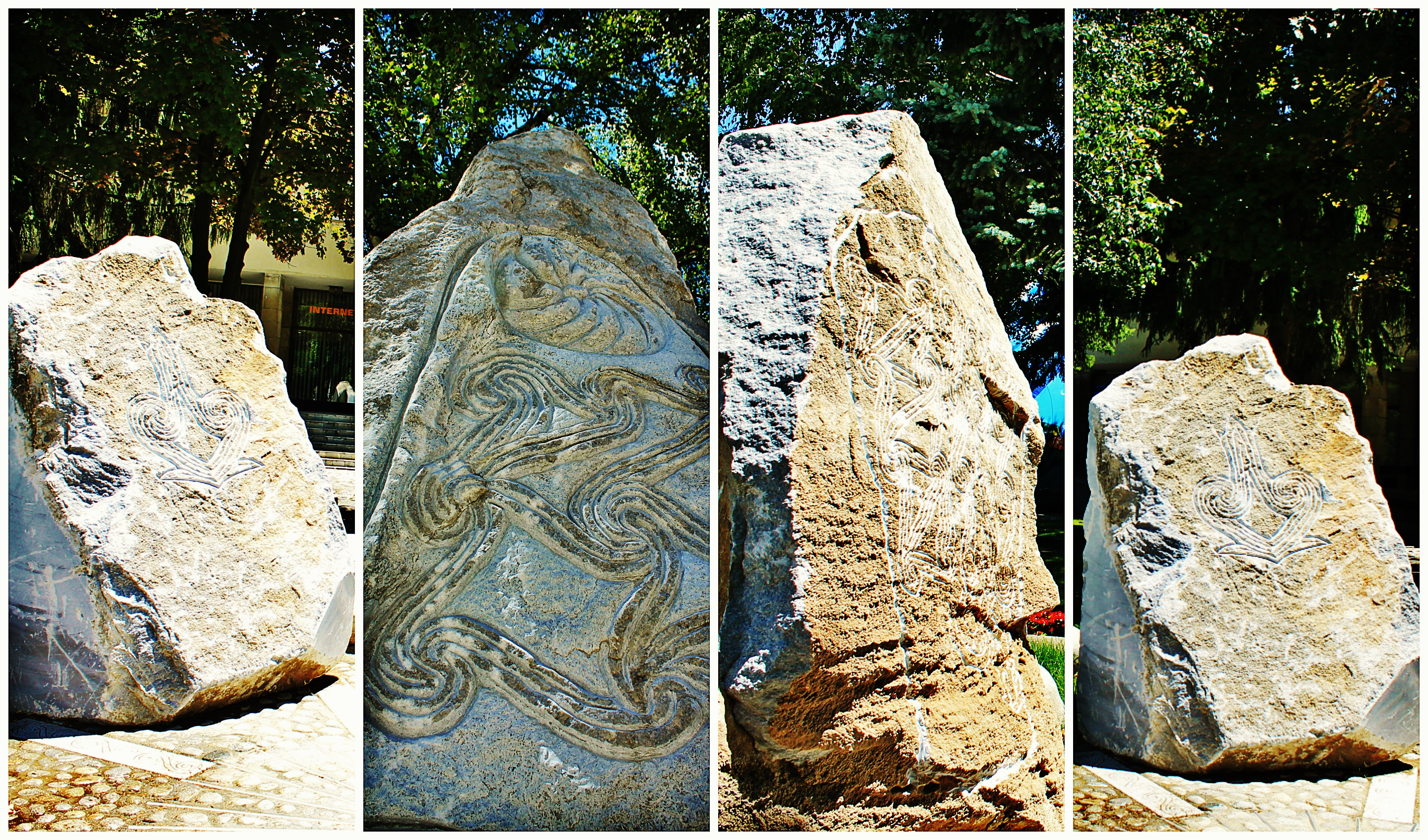 Stellas Stolovatetz Razlog BG